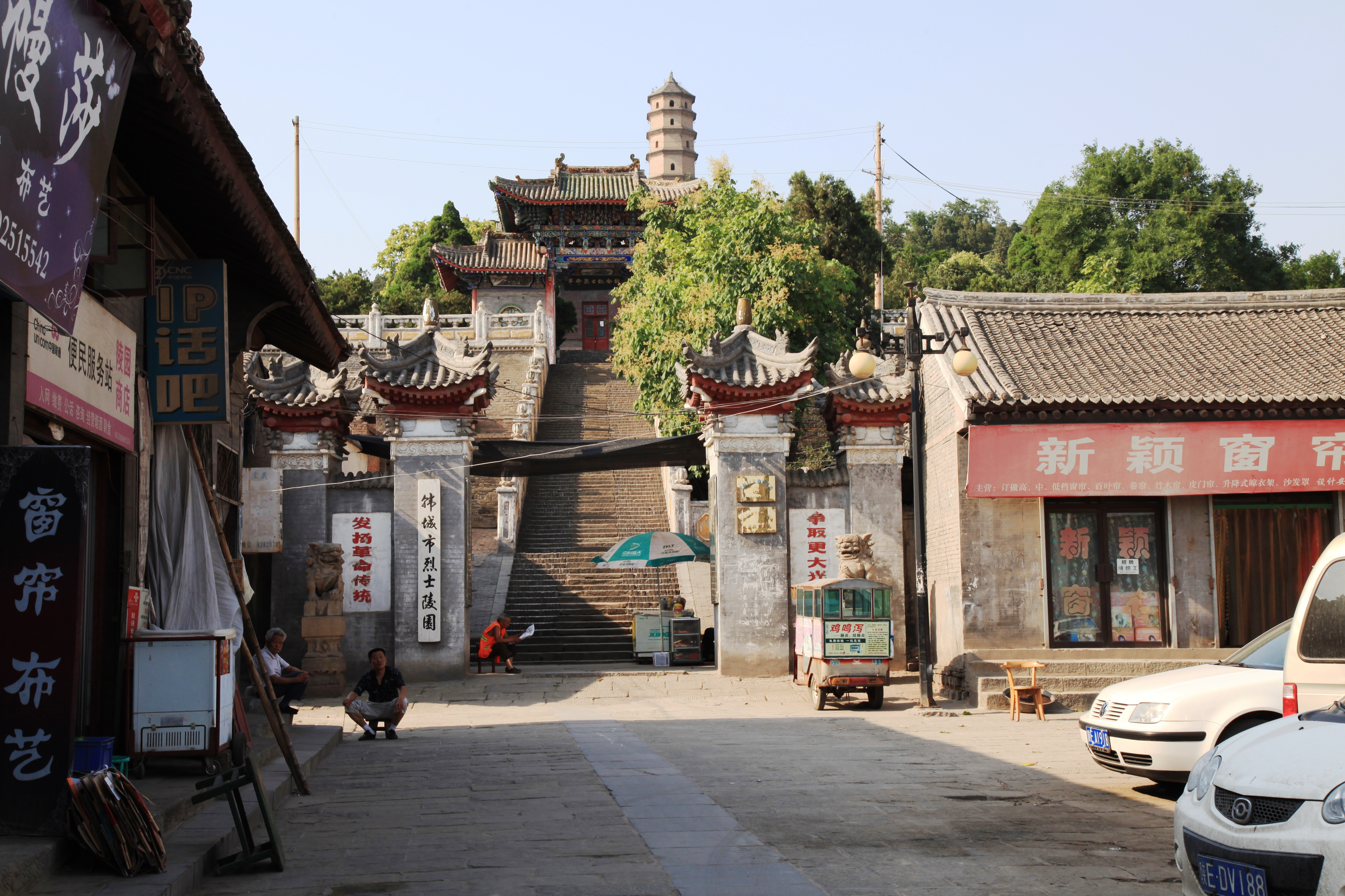 View from old city to the Pagoda. Hancheng, Shaanxi.